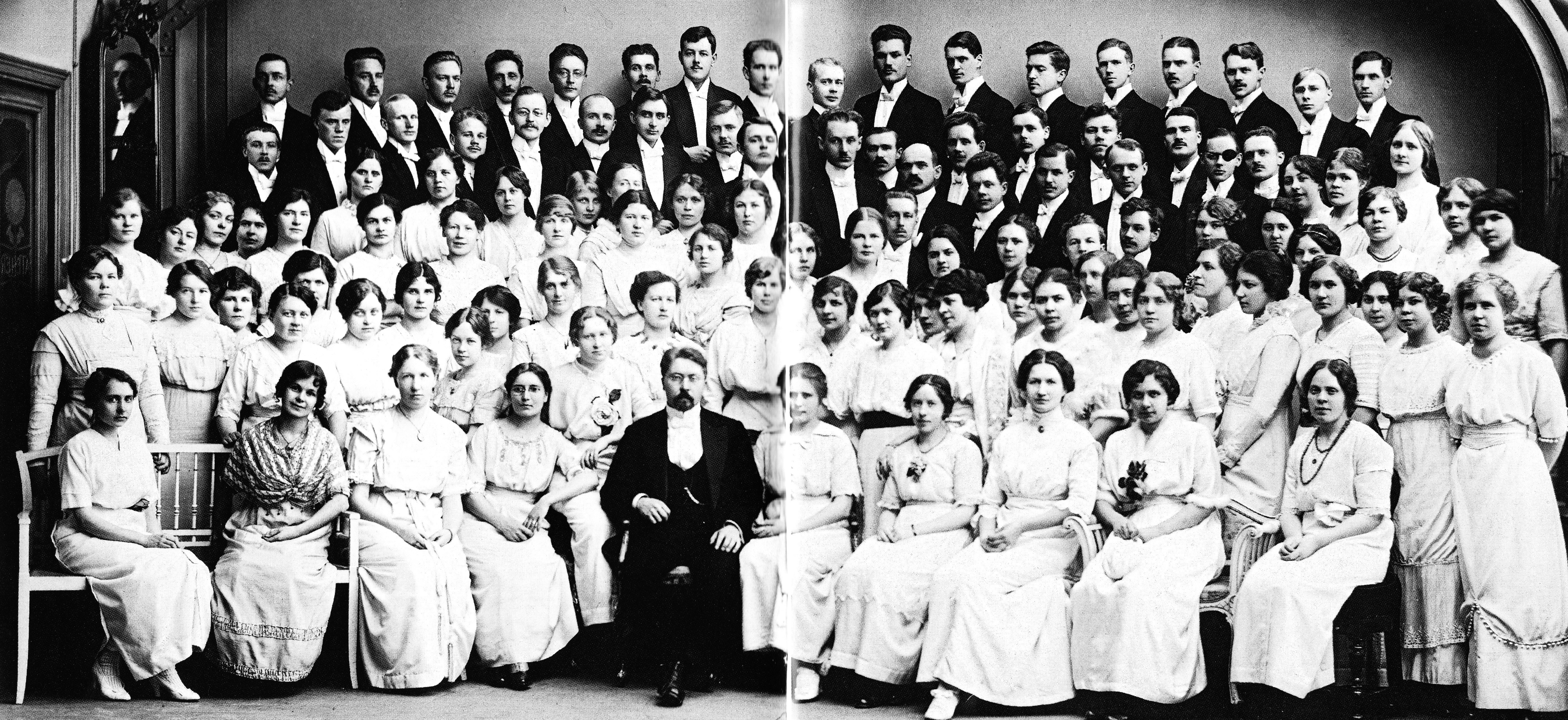 Suomen Laulu